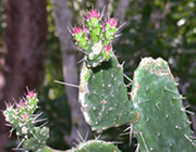 Consolea corallicola commonly known as the "Semaphore Prickly-pear Cactus", is only found on a few keys in southern Flordia and may be the rarest plant in the United States